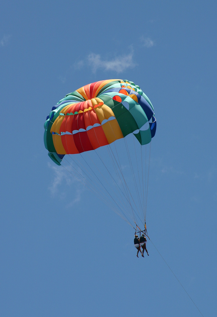 A parasailer offshore near Lahaina, Maui. This photograph was taken by me in June of 2003. This image is offered to the public for any usage deem suitable, without exception; however, I would like credit as the photographer in return for its use. A copy of this image may be obtained under the came conditions from my website at the following URL